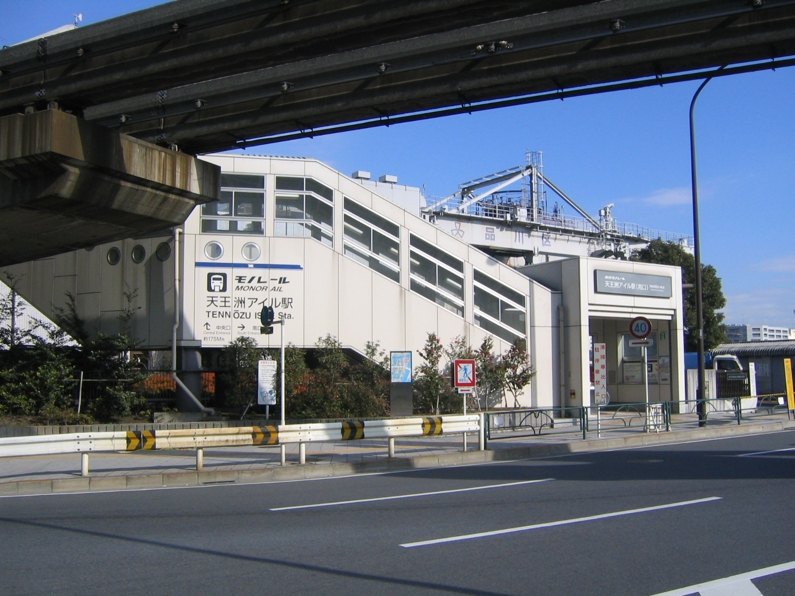 Tennozu Isle Station (South Entrance)